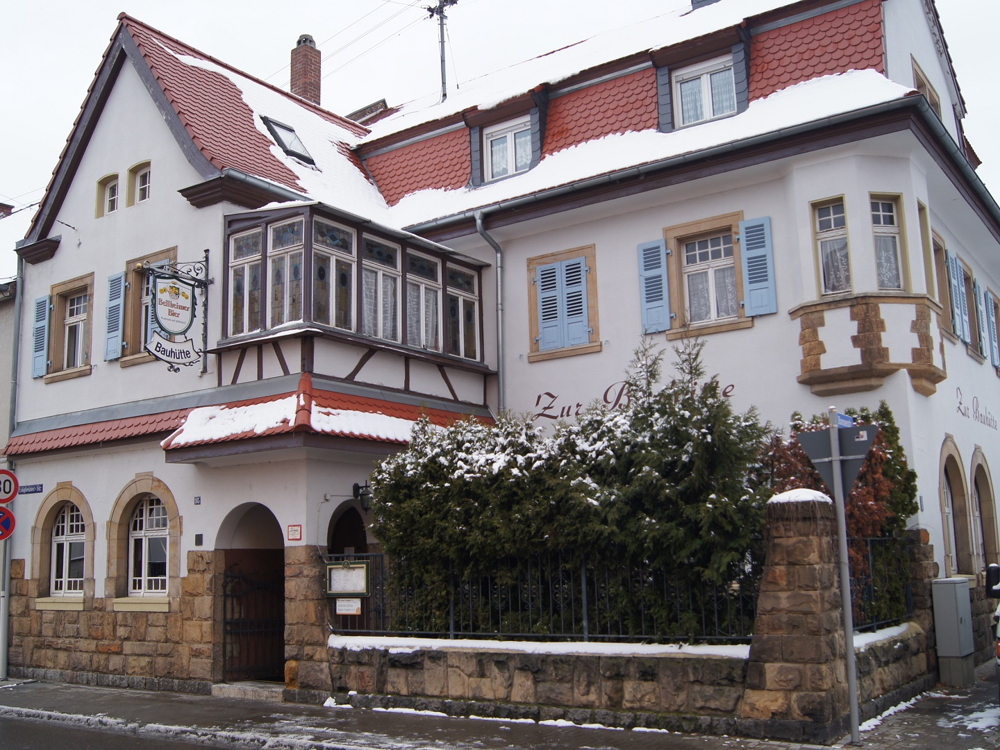 Oppau, Edigheimer Straße 95, restaurant "Bauhütte"